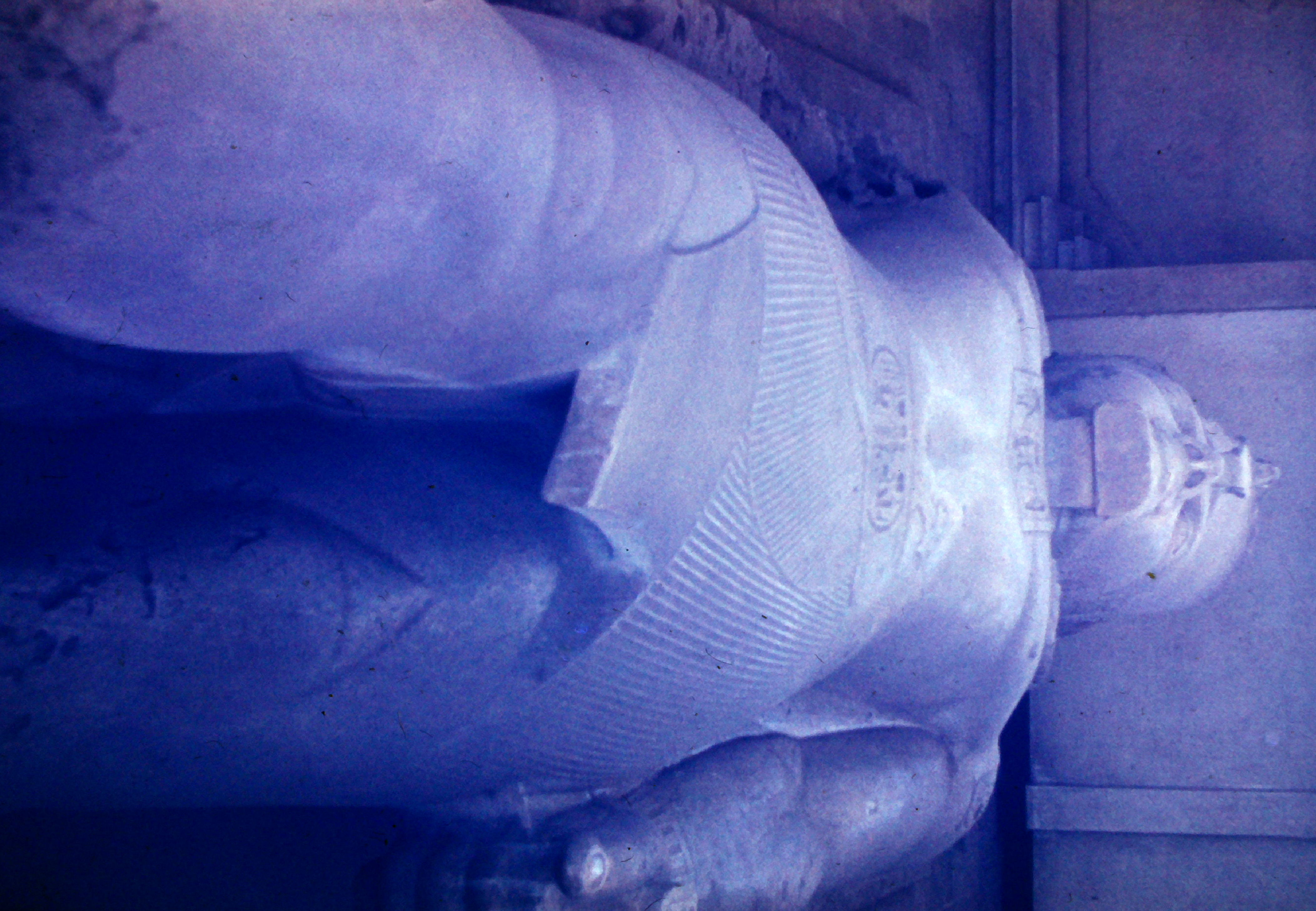 Ramzes II in Memphis